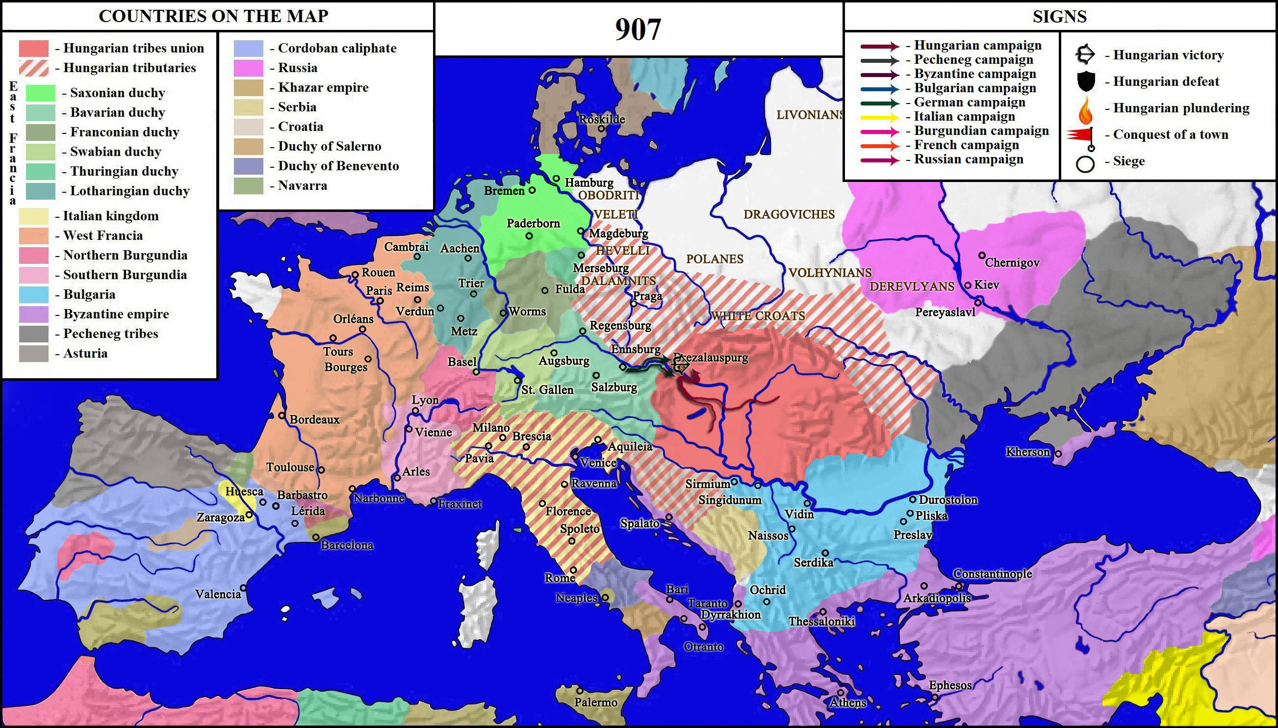 The map showing Europe in the time of the Battle of Pressburg